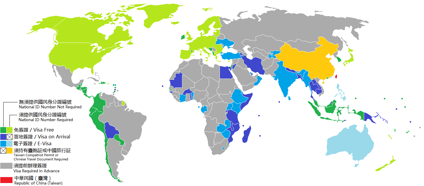 map showing countries with entry condition for taiwanese citizen